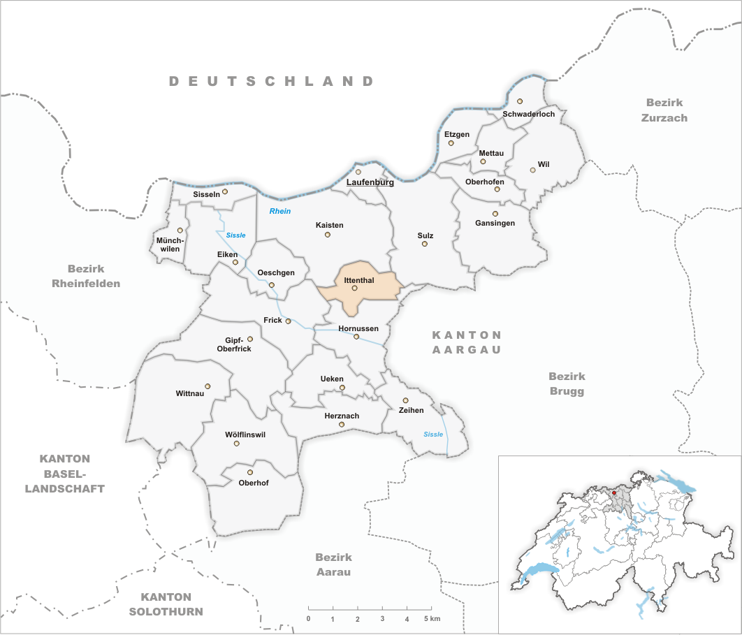 Municipality Ittenthal